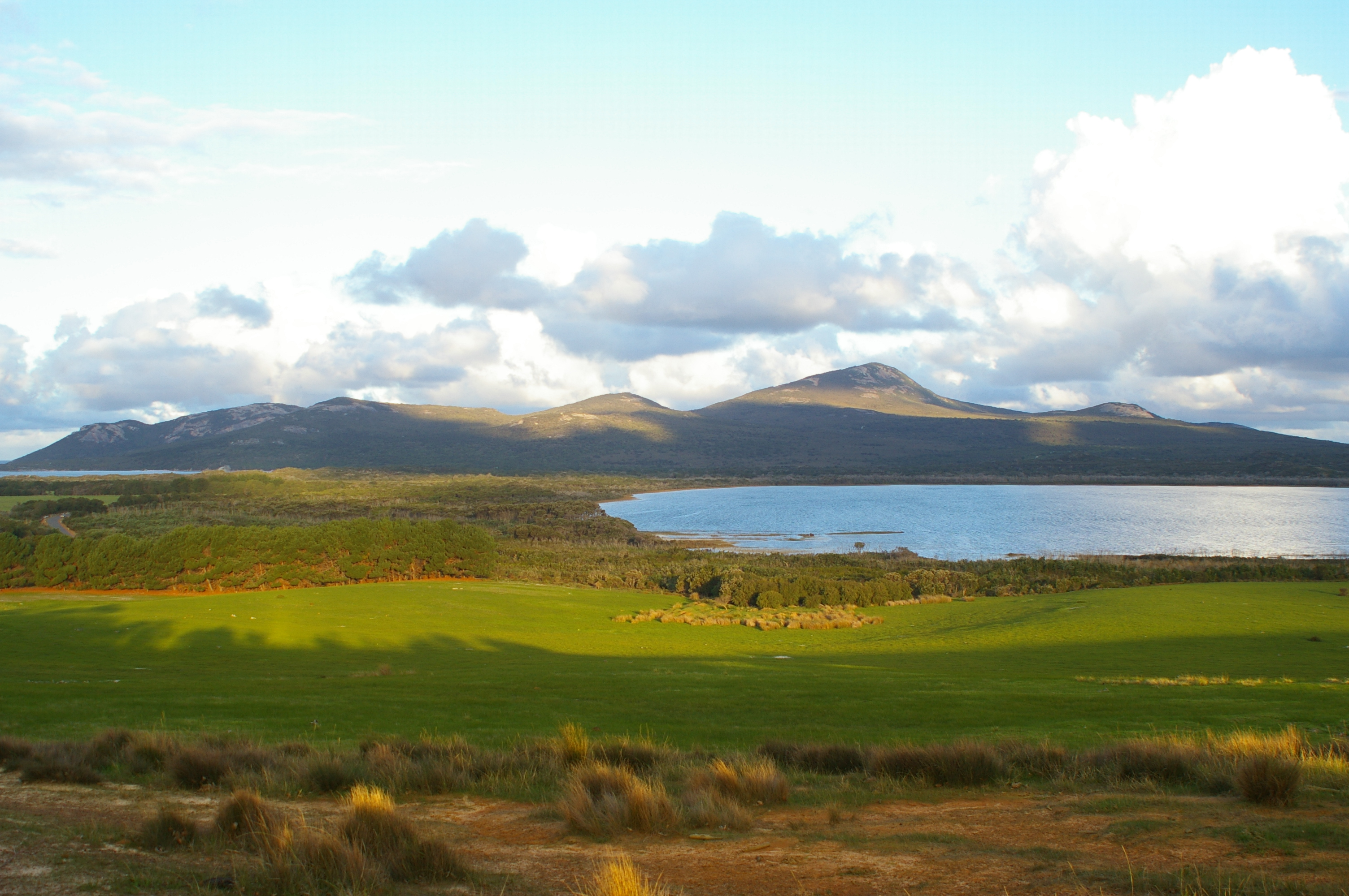 View of the southern part of the reserve from the Two Peoples Bay in Albany, Western Australia. Photo taken June 2nd 2007 by Darren Hughes (myself) I release this photo into the public domain for anyone to use. Photo taken from Two Peoples Bay Road over the reserve.